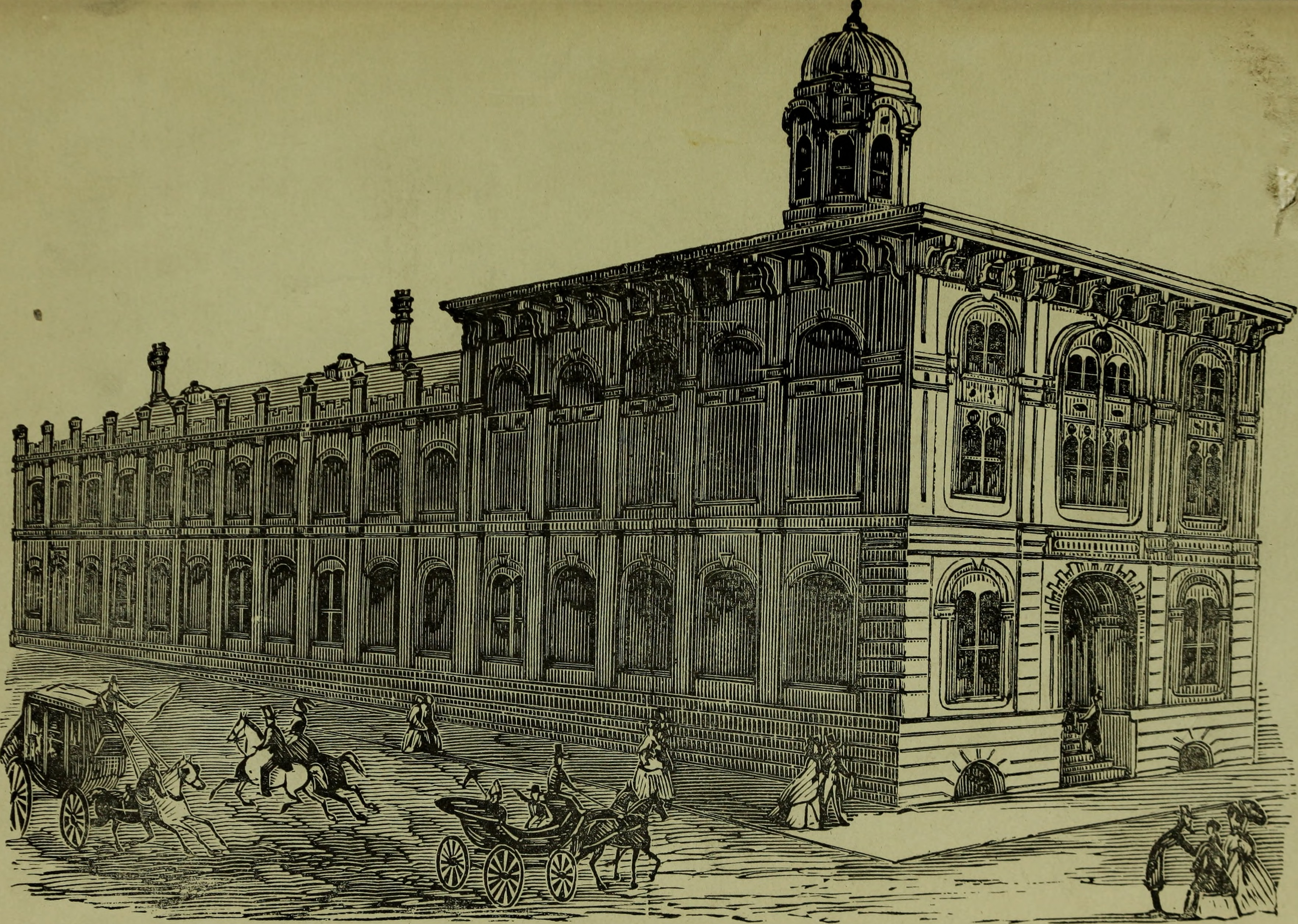 Title: Annual announcement of lectures at Toland Hall, Medical Department of the University of California, San Francisco, California Year: 1879 (1870s) Authors: University of California (1868-1952). Medical Dept Subjects: University of California (1868-1952). Medical Dept Schools, Medical Publisher: San Francisco : Cubery & Co. Text Appearing Before Image: ence and Mental Diseases—Maudleys Phys-iology and Pathology of the Brain, Bucknell and Tuke on Insan-ity, and Taylors Medical Jurisprudence. Hygiene—Parks Manual of Practical Hygiene, HammondsTreatise on Hygiene, Mapothers Lectures on Public Health,and Huxley and Youmans Physiology and Hygiene. BOARDING. Students may obtain good board in San Francisco at from fiveto tea dollars per week, and, if they desire, may live at a lessexpense. N. B.—Students, on arriving in the city, should call at onceupon the Dean, whov^ill communicate all necessary information.Letters must be addressed to A. A. ONeil, M. D., Dean of theFaculty. Office, 650 and 652 Washington street, below Kearny,or at the College, Stockton street, between Chestnut and Fran-cisco. Notice.—Pathological and other specimens are respectfully^solicited for the College Museum ; due credit will be rendered tothe donors. Specimens may be left on deposit at the Museum,where proper care will be taken for their preservation. ^y Text Appearing After Image: '